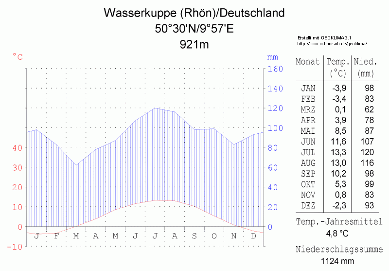 climate chart in the format by Walther and Lieth, metric, °Celsisus and millimeters, made with Geoklima 2.1